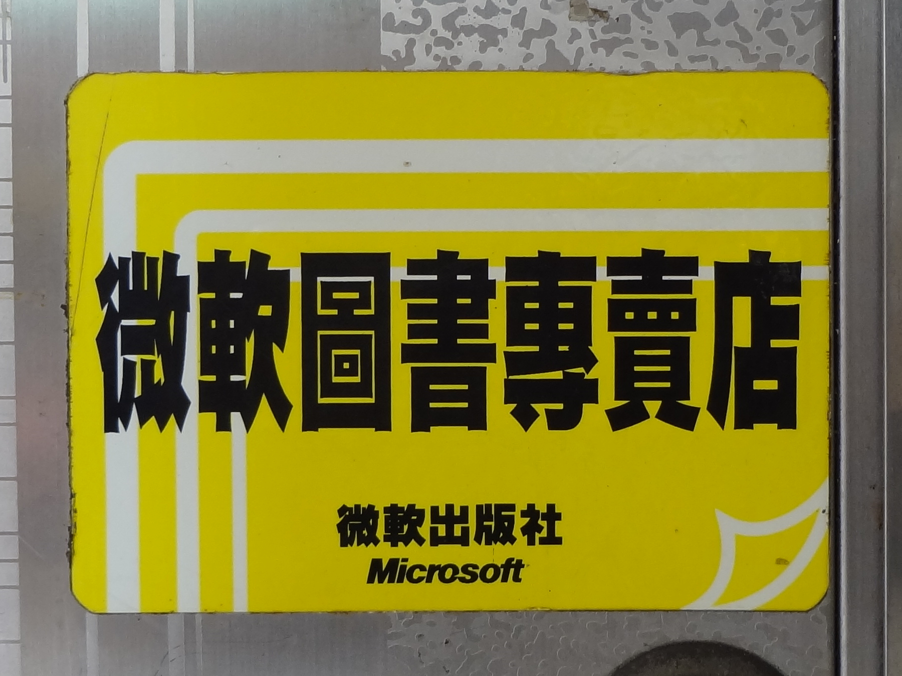 Microsoft Press books specialty store sticker by Microsoft Taiwan.